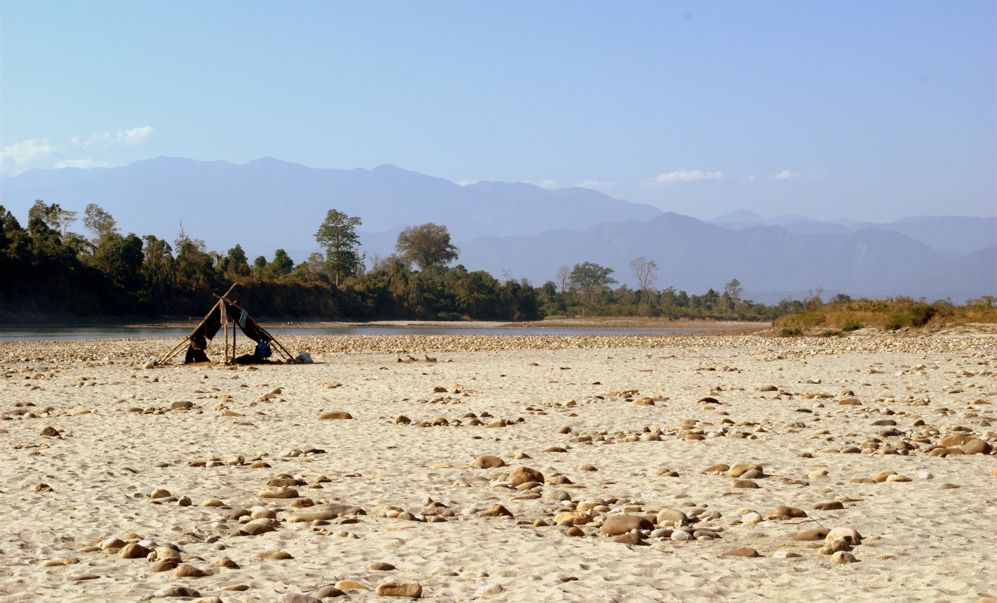 The inaccessibility and continuity with the neibouring forest areas have helped the wildlife of Nameri to flourish. There is a good prey base in the form of Sambar, Barking deer, Hog Deer, Wild Boar and Gaur. About 3000 domestic cattle also form part of this prey base for Tiger and Leopards.